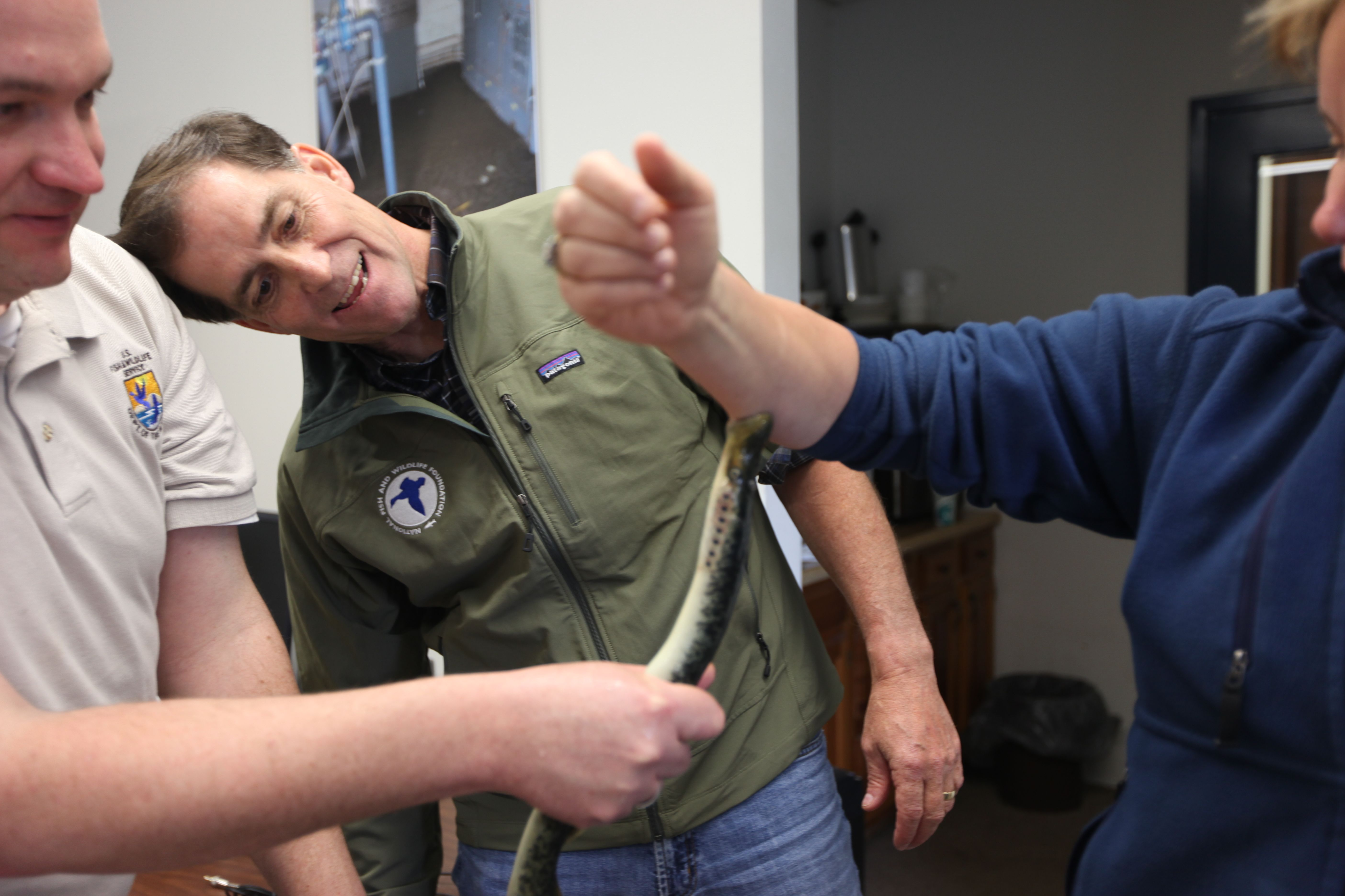 U.S. Fish & Wildlife Service Director Dan Ashe visits the Northeast Region for a tour of the White River National Fish Hatchery in Bethel, Vermont on April 27, 2012. The hatchery was devastated by Tropical Storm Irene and Dan Ashe had the chance to meet and thank the staff for their heroic work. Director Ashe also visited restoration/flood response/fish passage project sites in Rochester, Vermont and met with local officials and staff from the White River Partnership.